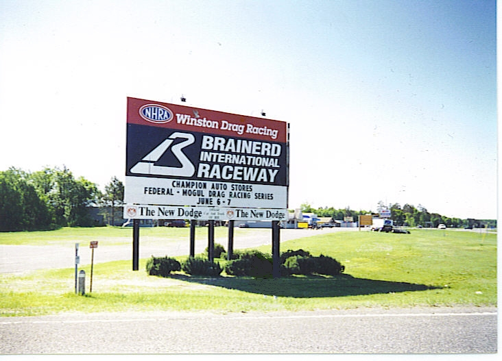 Brainerd International Raceway near Brainerd, Minnesota.